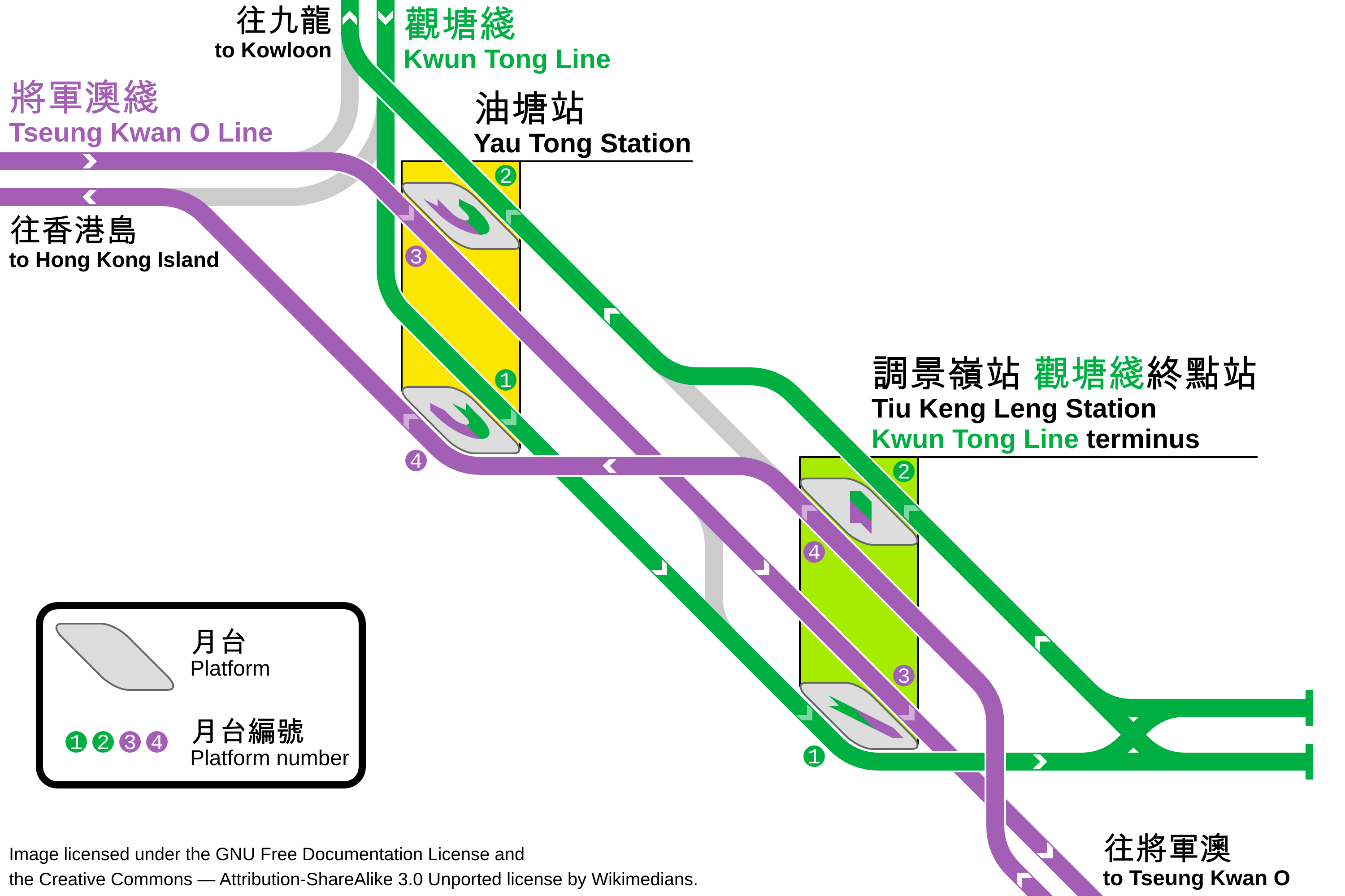 The multiple cross-platform-interchange system between Tiu Keng Leng and Yau Tong stations. For a geographically accurate map of the region around these 2 stations, please view this map.